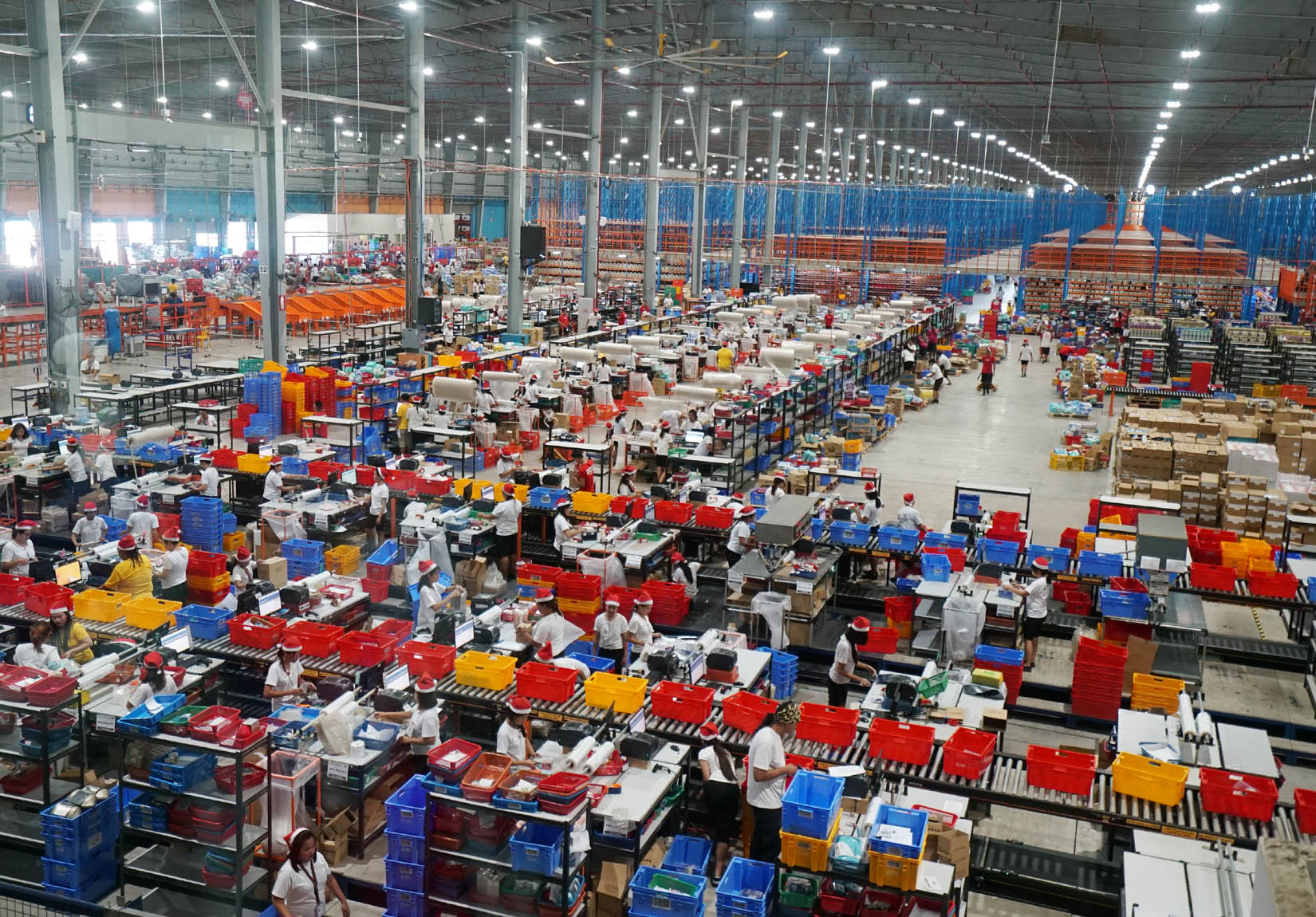 The warehouse of online sale portal Lazada in Cabuyao City, Laguna practically turns into a Santa's workshop on Sunday (Nov. 11, 2018), as the staff work on loads of orders for the company's popular one-day sale called 11.11 Shopping Festival. Online shoppers in the Philippines enjoy over 50 million deals, including a whopping 99-percent discount, one-peso deals, and vouchers. The sale extravaganza ends Sunday midnight.